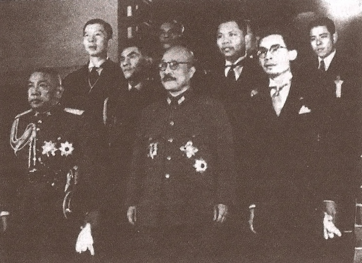 Photograph of Phraya Phahol and Hideiki Tojo in Tokyo